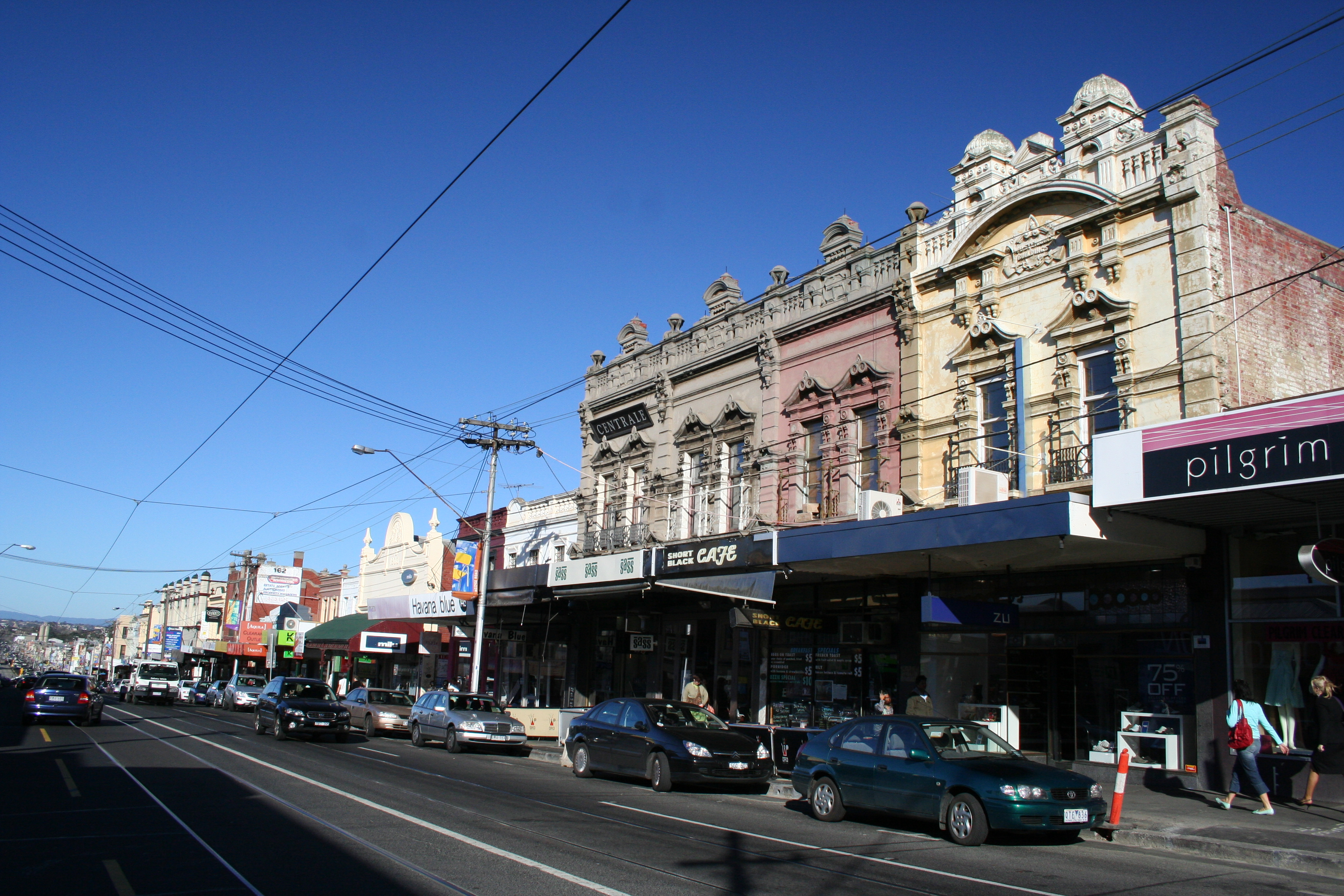 Bridge Road, Richmond, Victoria, Australia, looking east